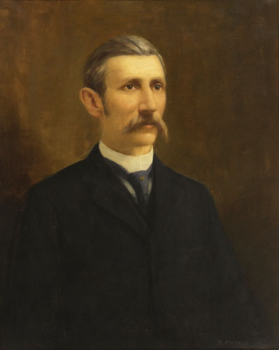 The official portrait of Francis P. Fleming. As the 15th governor of Florida, Fleming started the tradition of having an official portrait made for each governor. All of the portraits are currently on display at the Florida Center of Political History and Governance at the Old Florida Capitol Building.